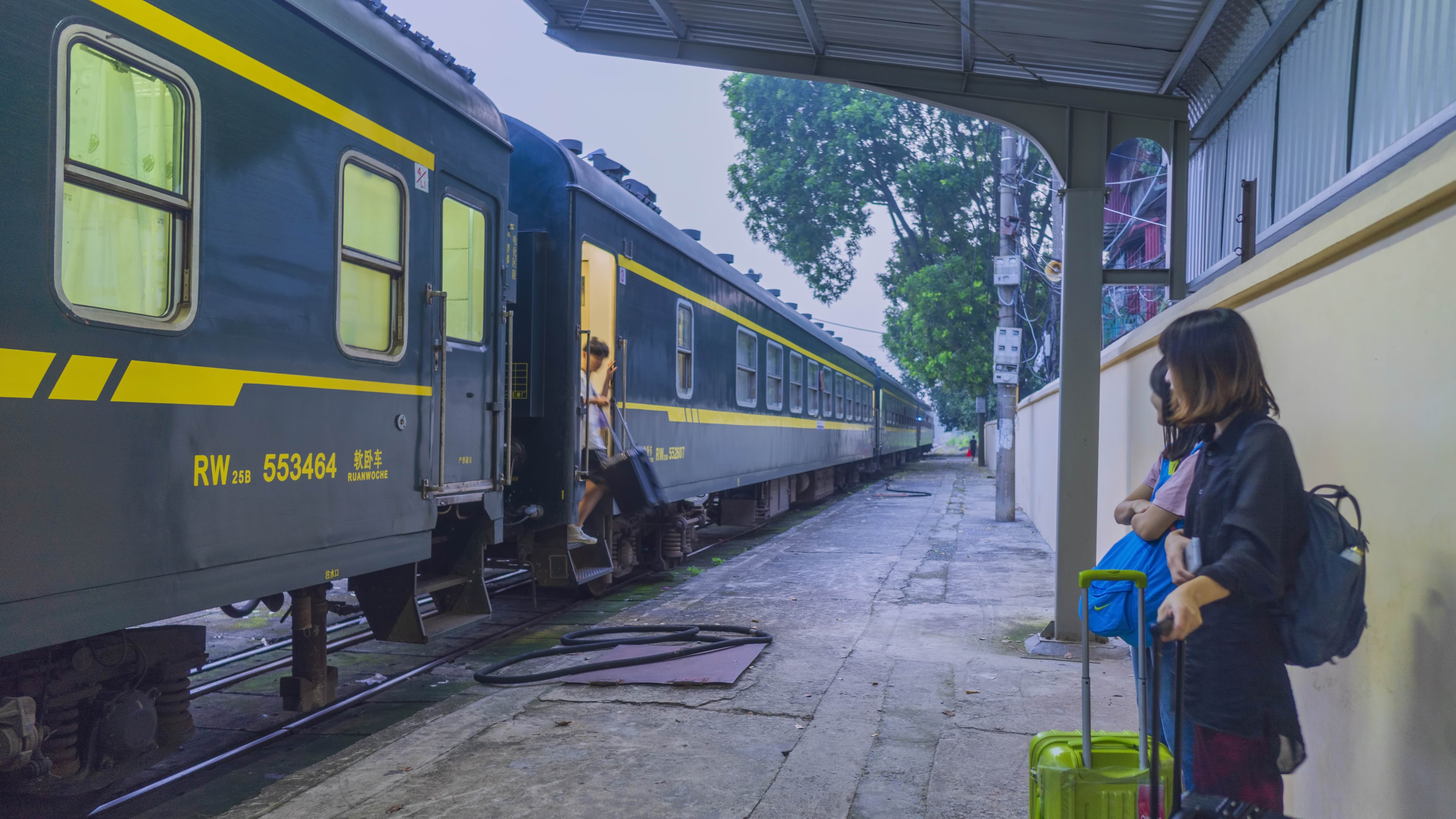 Gia Lam, Hanoi, Vietnam